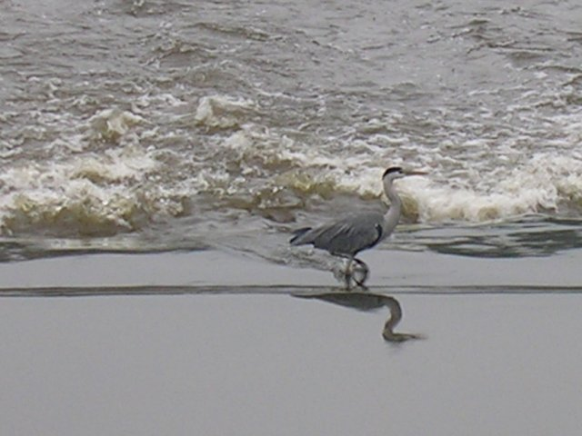 A Grey Heron (Ardea cinerea) wading along a weir on the River Irwell at Bury, in Greater Manchester, England. This once polluted waterway has seen a dramatic improvement in water quality in recent years.